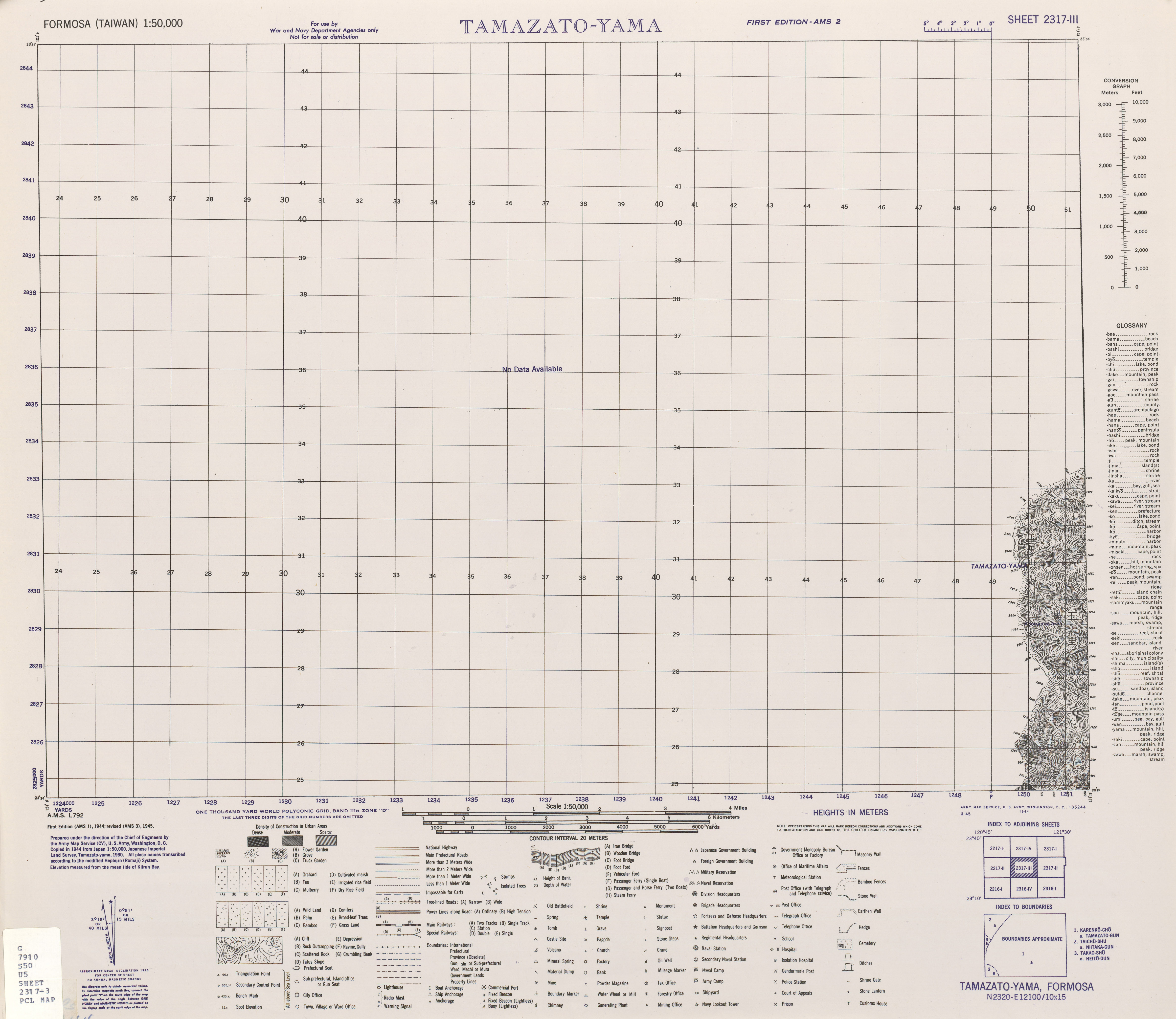 Map from Formosa (Taiwan) 1:50,000 AMS Series L792